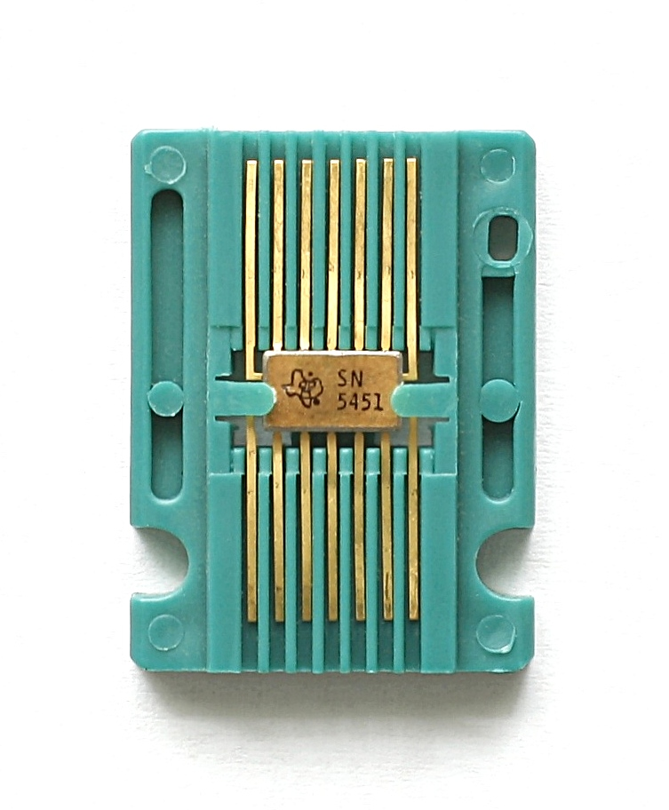 Logic IC Texas Instruments SN5451.